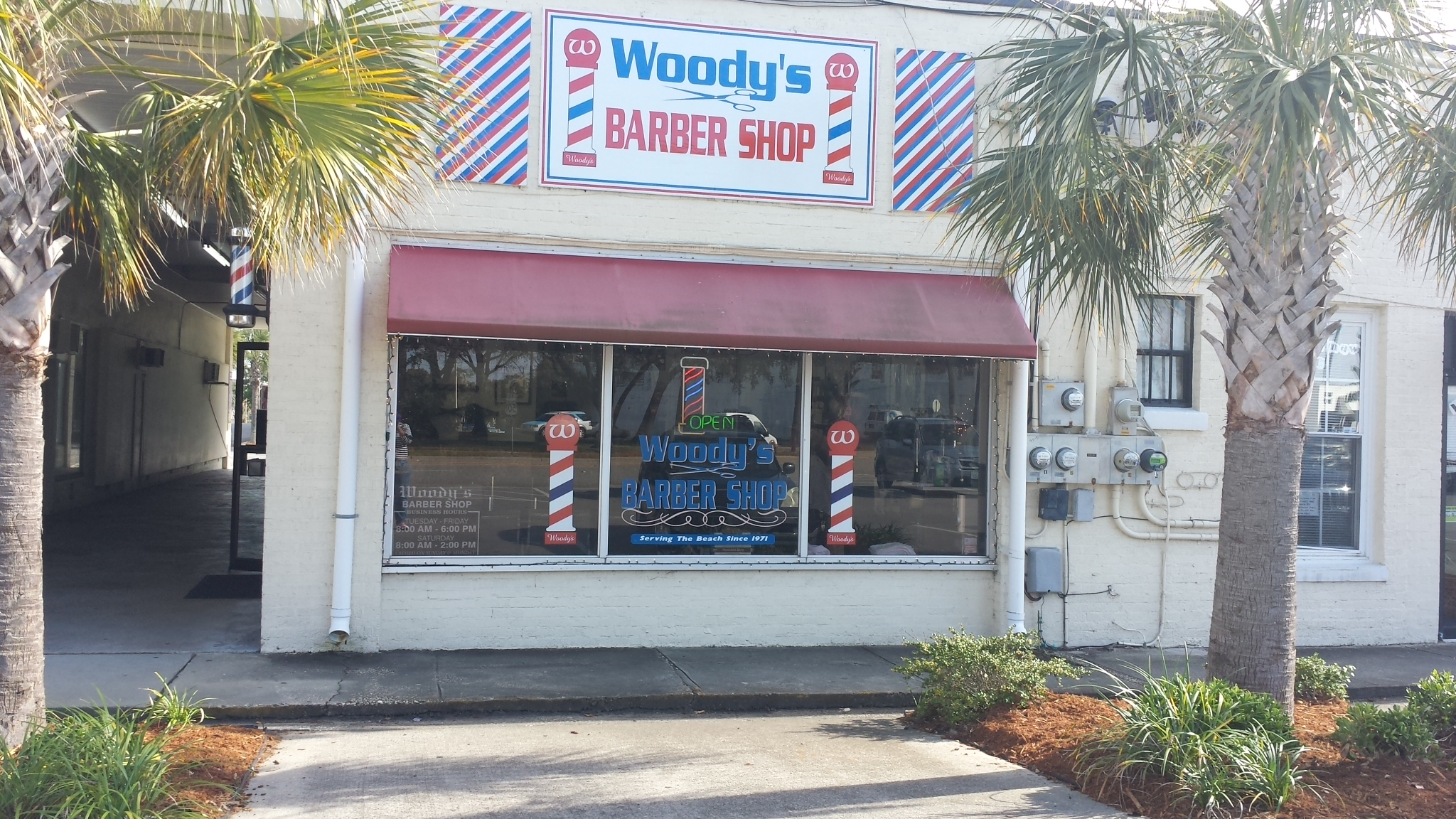 Picture of Woody's Barber Shop